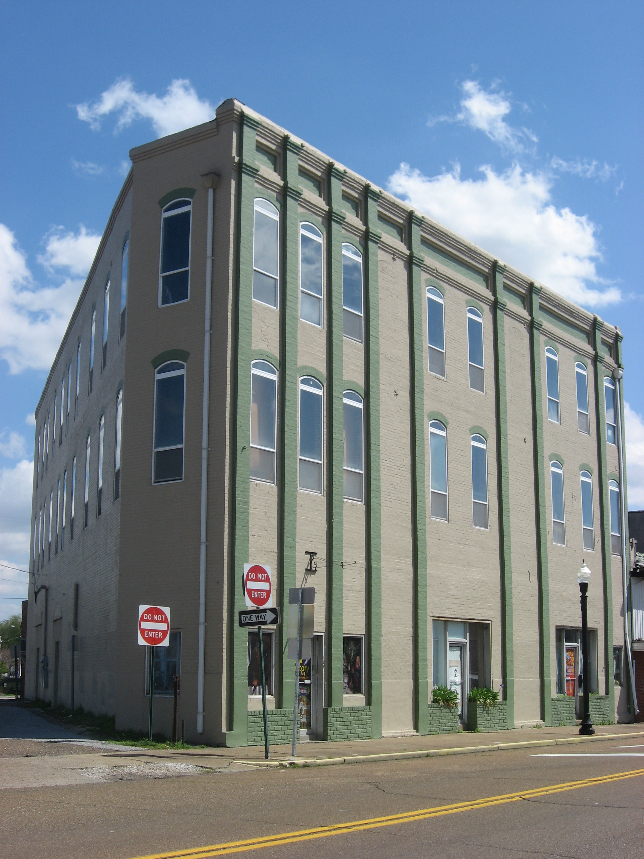 Western front of the Deering Building, located at 106 S. First Street (State Routes 5/21) in Union City, Tennessee, United States. Built in 1891, it is listed on the National Register of Historic Places.